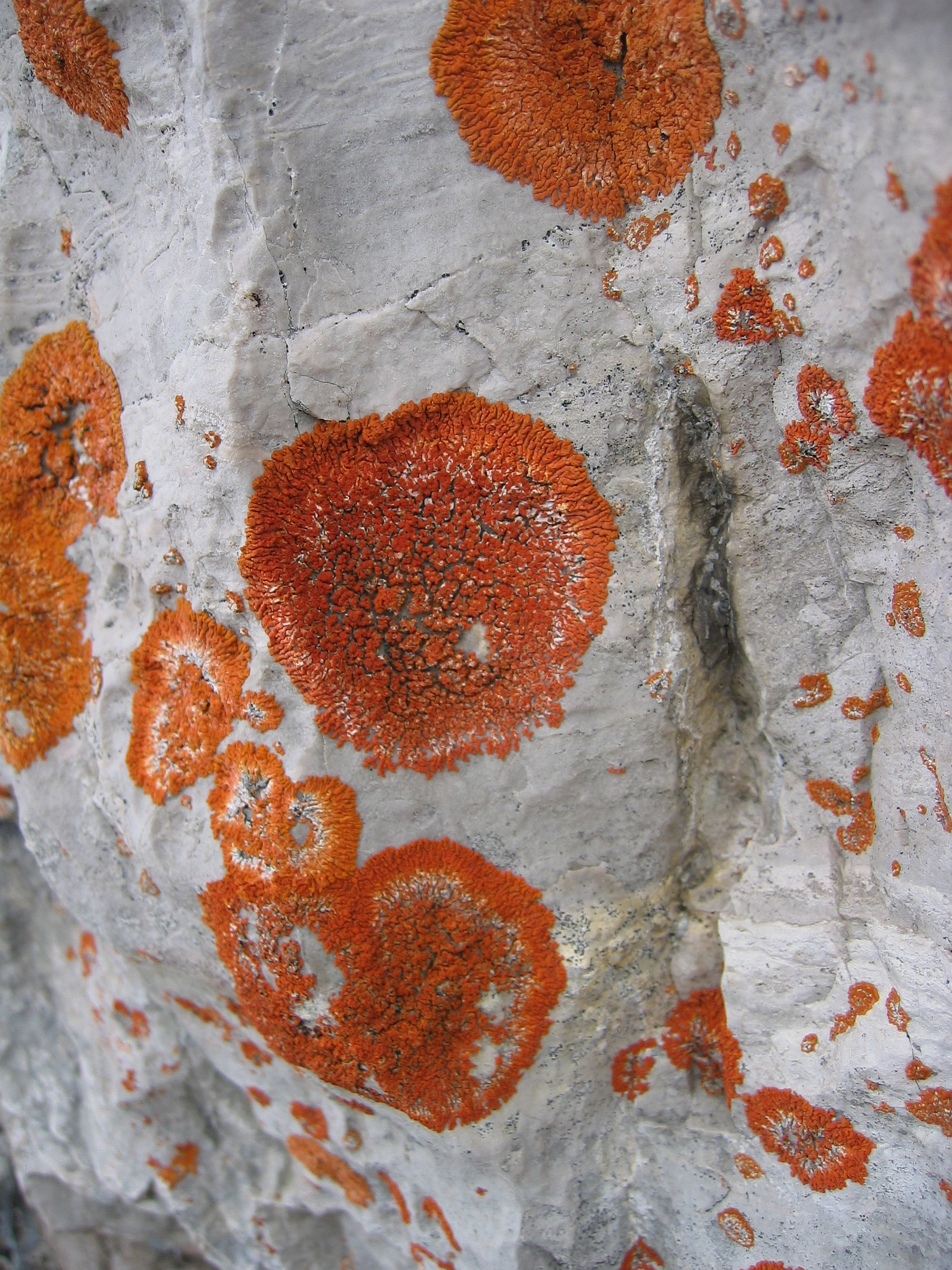 Xanthoria elegans,Warscheneck, Upper Austria, Austria